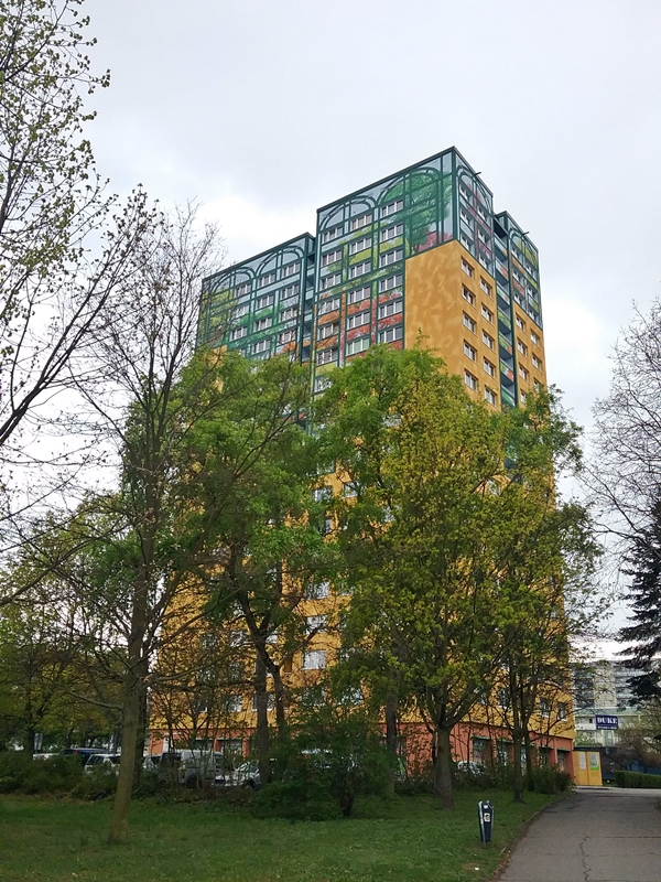 Flowertower is a high-rise building in Berlin-Marzahn